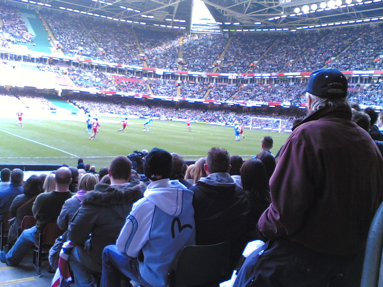 Bristol Rovers v Doncaster Rovers in the Johnstone's Paint Trophy final at the Millennium Stadium in Cardiff.